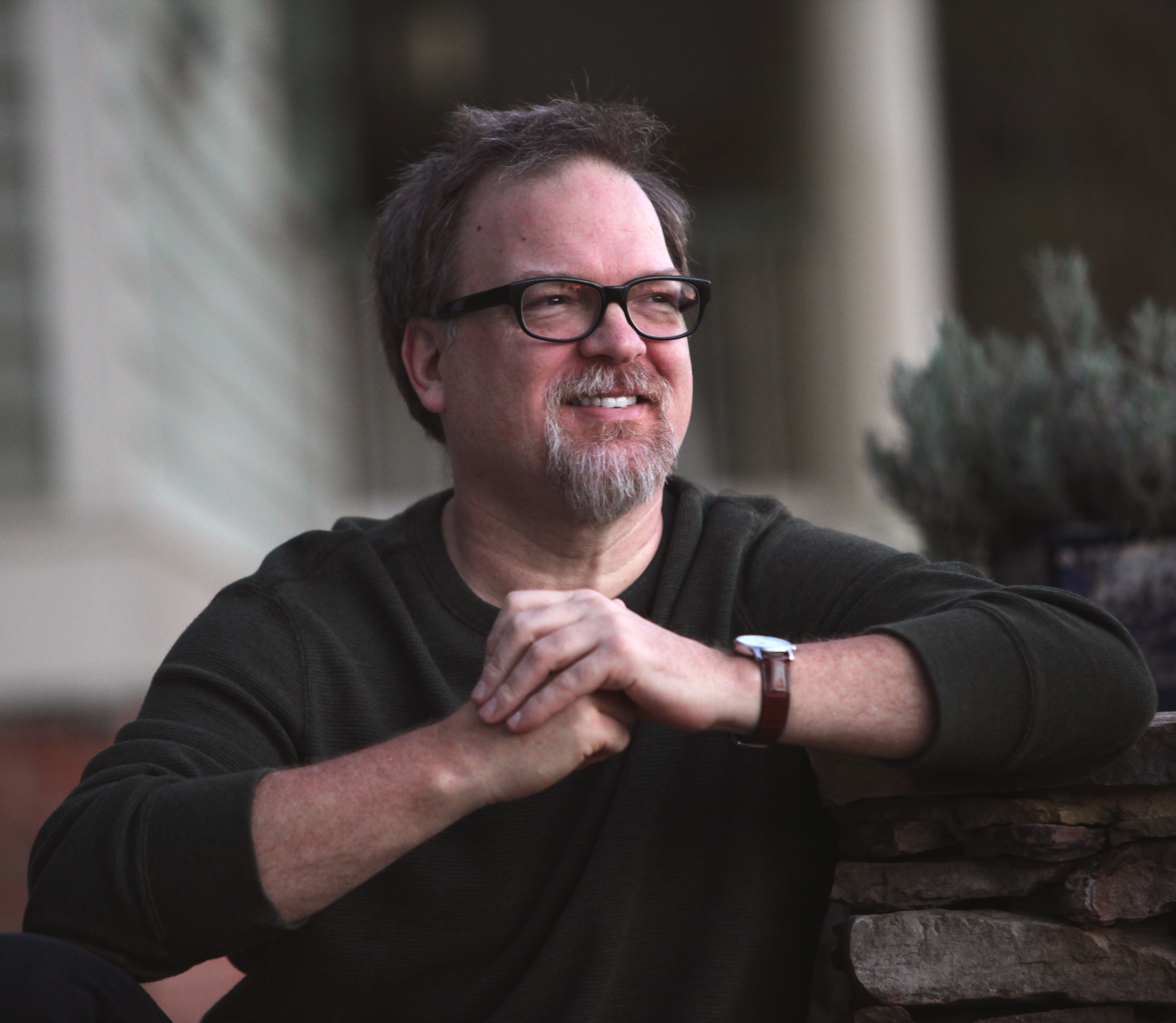 Bestselling Novelist Greg Iles